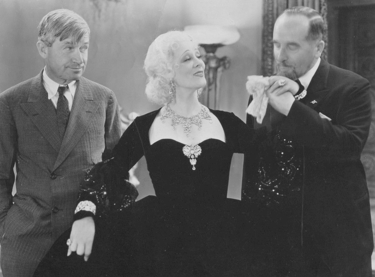 Photo of Will Rogers, Irene Rich and Theodore Lodi in a scene from the 1932 film Down to Earth. The item has no copyright markings on it as can be seen in the links above.